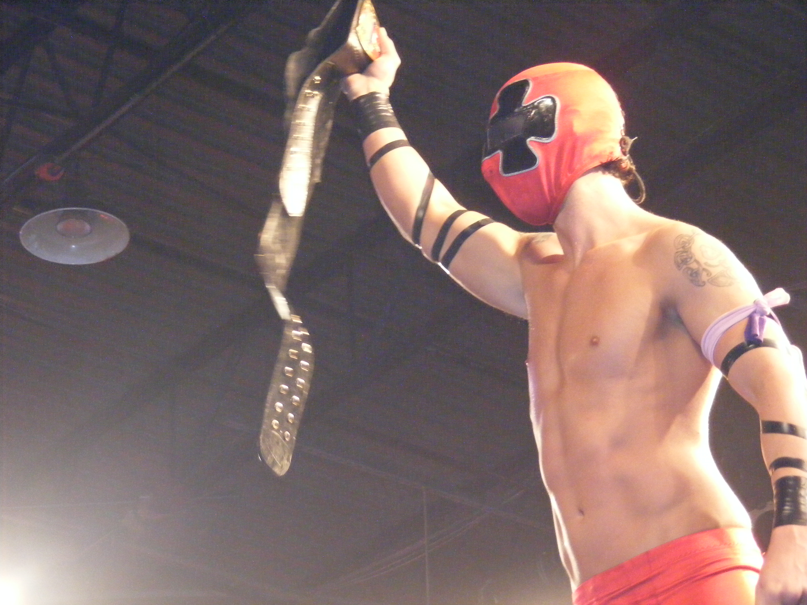 Professional wrestler Jigsaw holding a Chikara Campeonatos de Parejas belt.